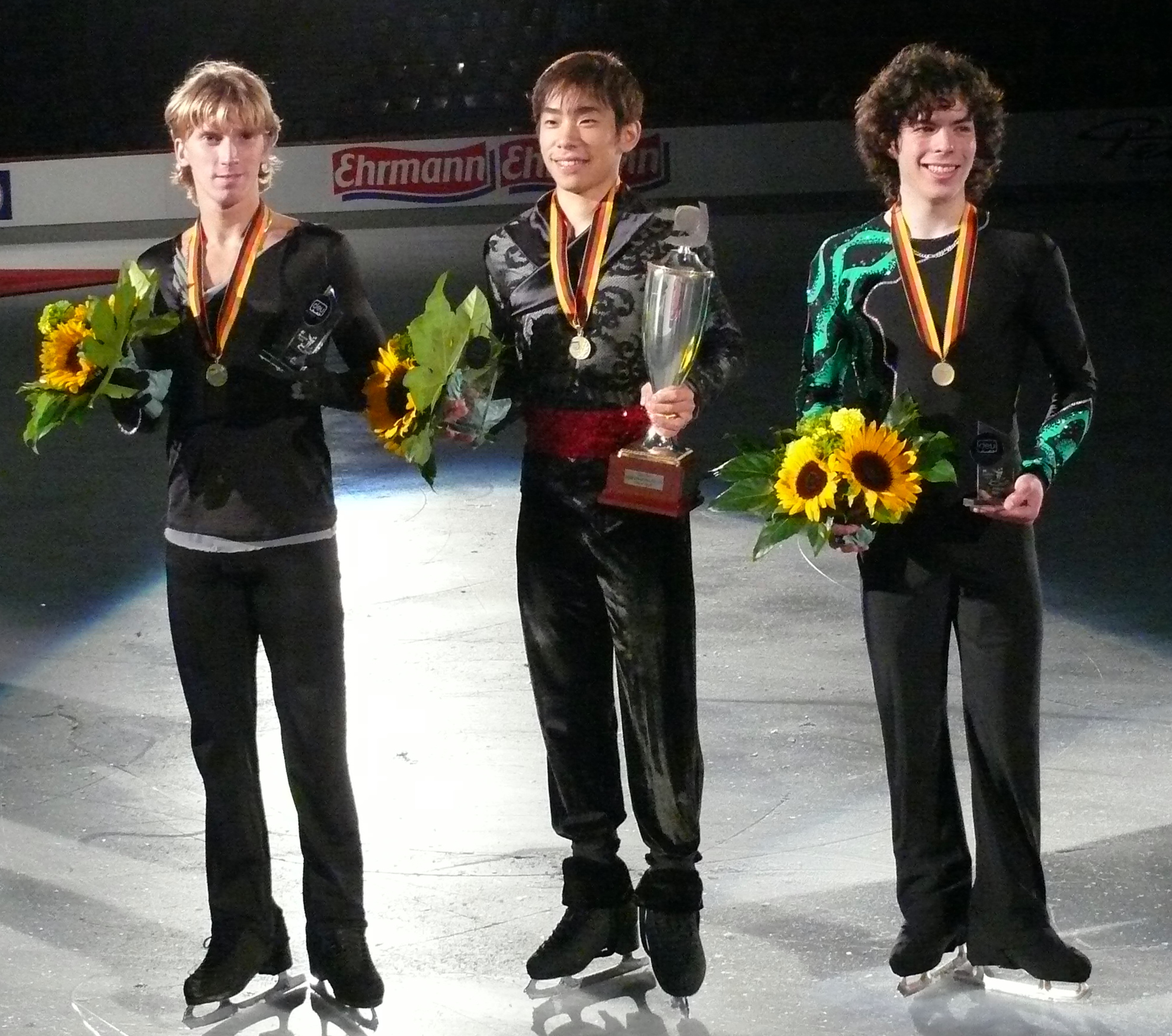 Victory ceremony men at the Nebelhorn Trophy 2012 in Oberstdorf/Germany. Left silver medalist Konstantin Menshov (RUS), center winner Nobunari Oda (JPN) and left bronze medallist Keegan Messing (USA).